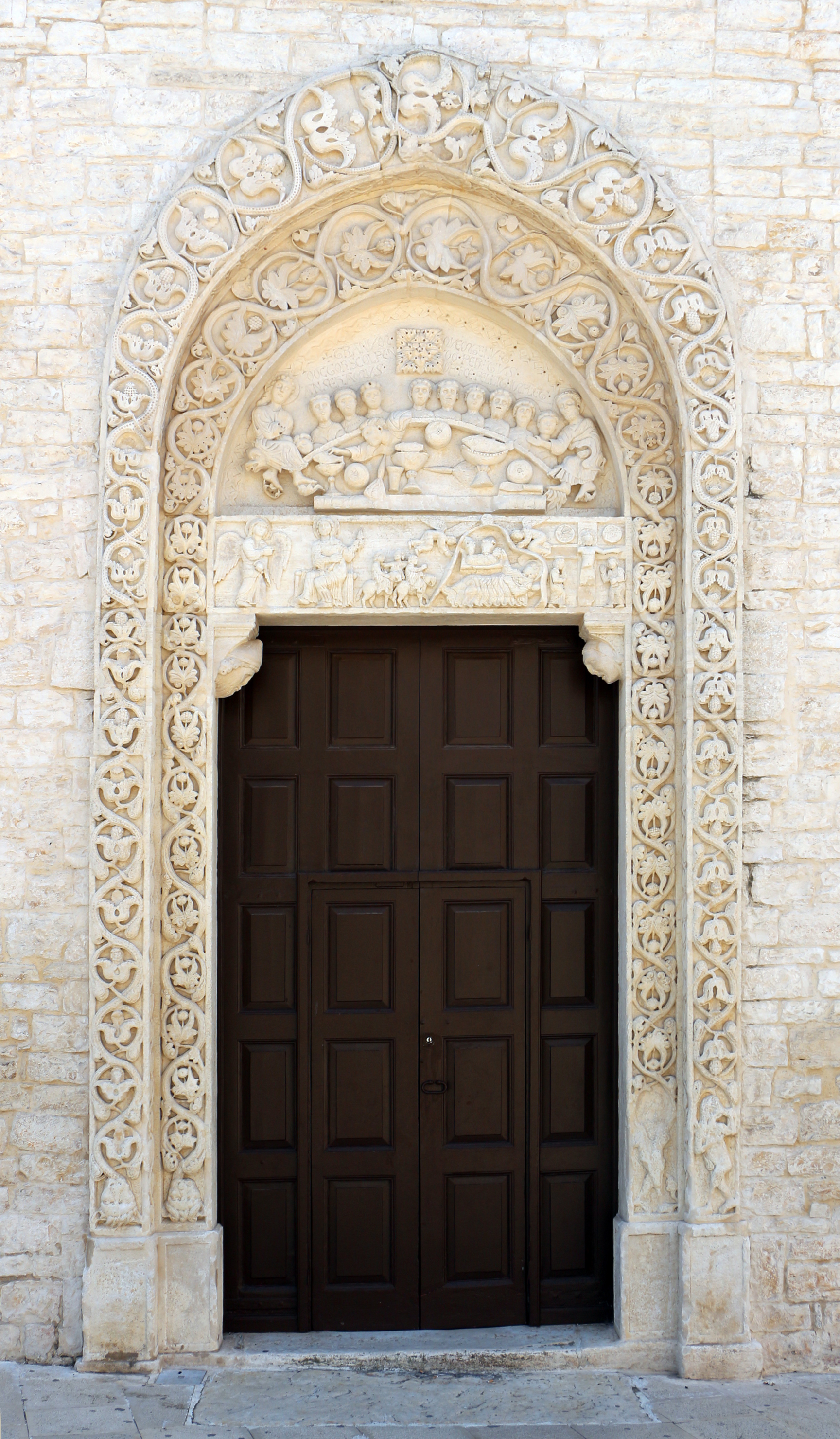 Terlizzi